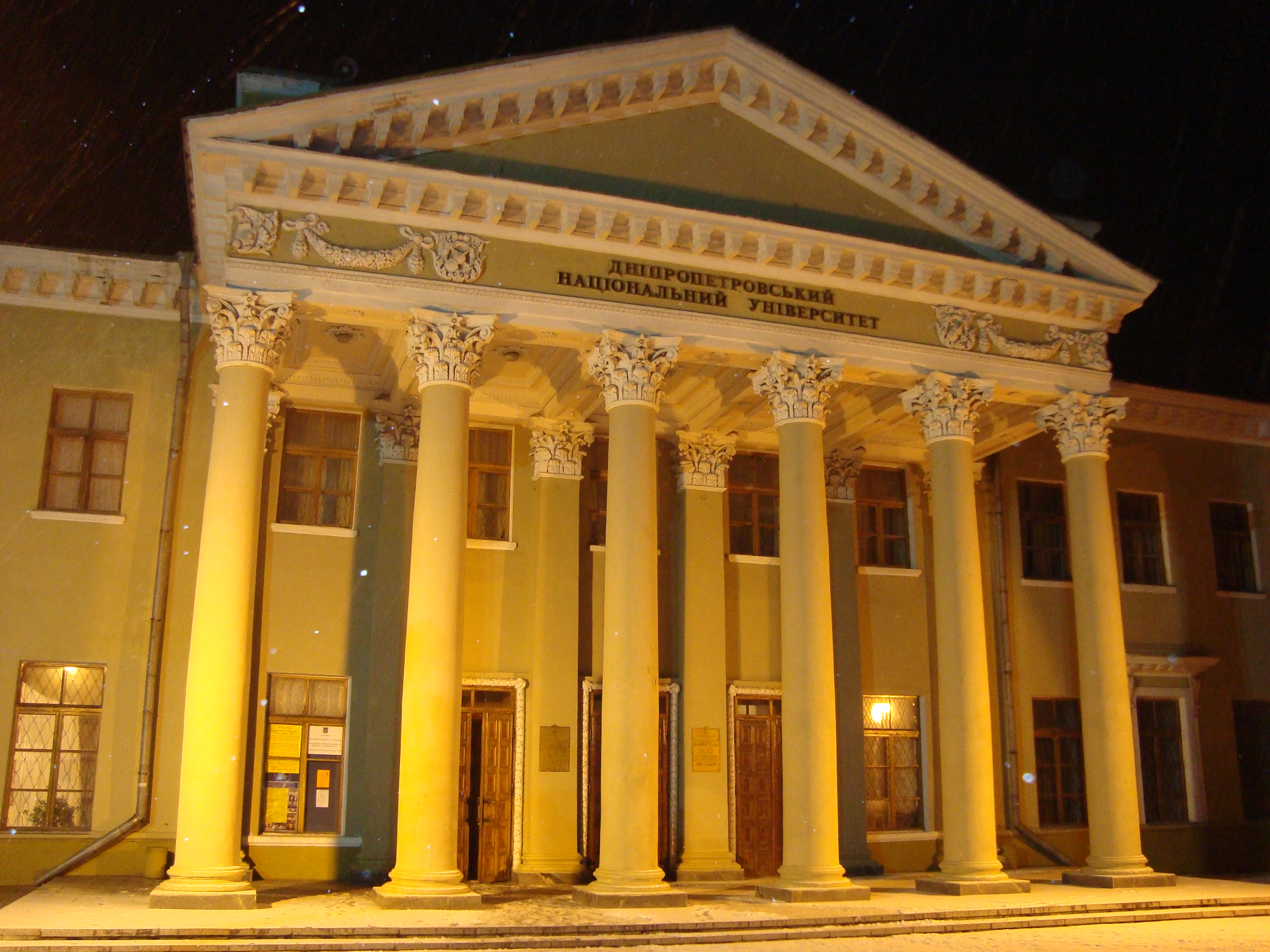 DNU, Dnipropetrovsk